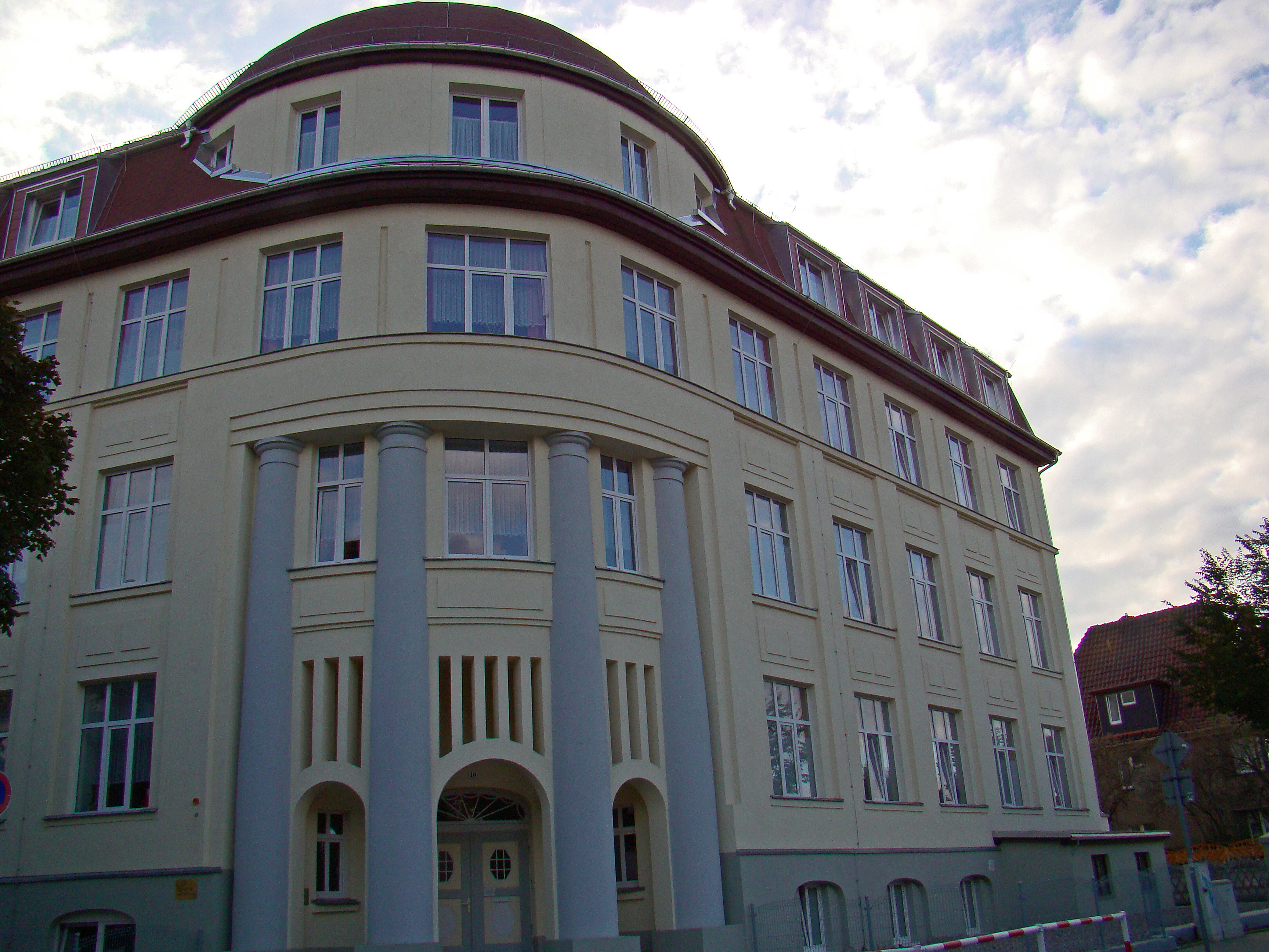 Former Polytechnikum Arnstadt, Kasseler Strasse 10, then Robert-Bosch-Schule, now old people's home